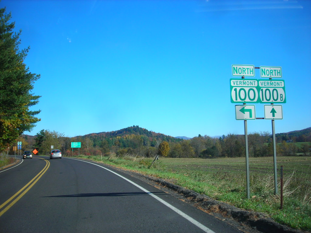 Signs for the approach to VT 100B on VT 100